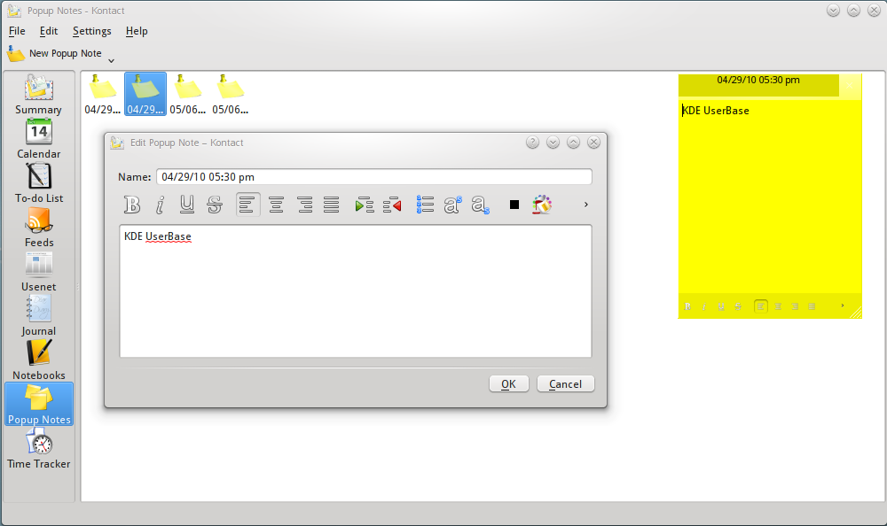 Kontact and KNotes screenshot